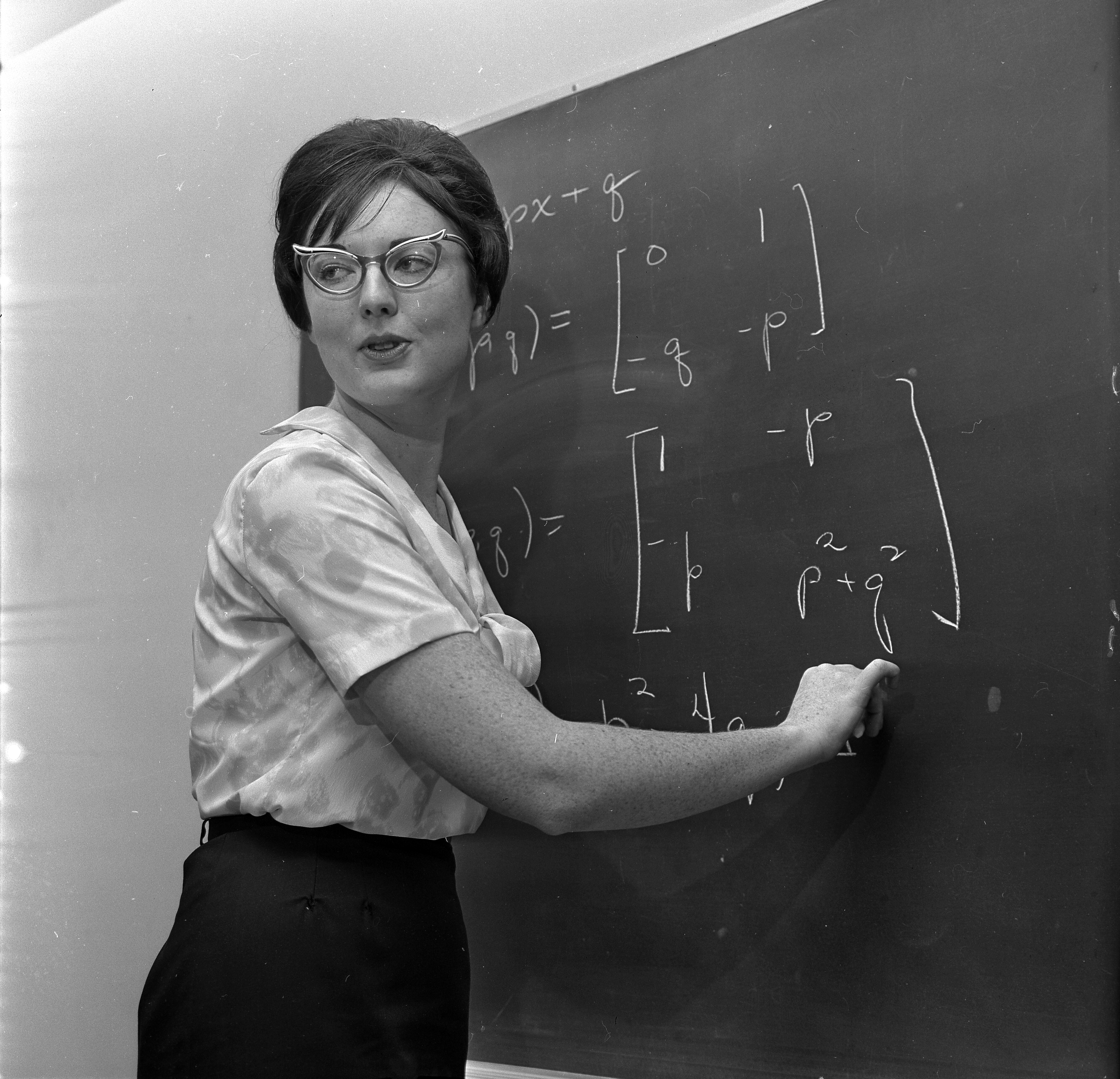 Lorraine L Foster, mathematician. Professor emerita of Mathematics, Cal State Northridge. B.A. 1960, Occidental College; Ph.D. 1964, California Institute of Technology. Research areas: Exponential Diophantine equations, Symmetry groups and Geometry.